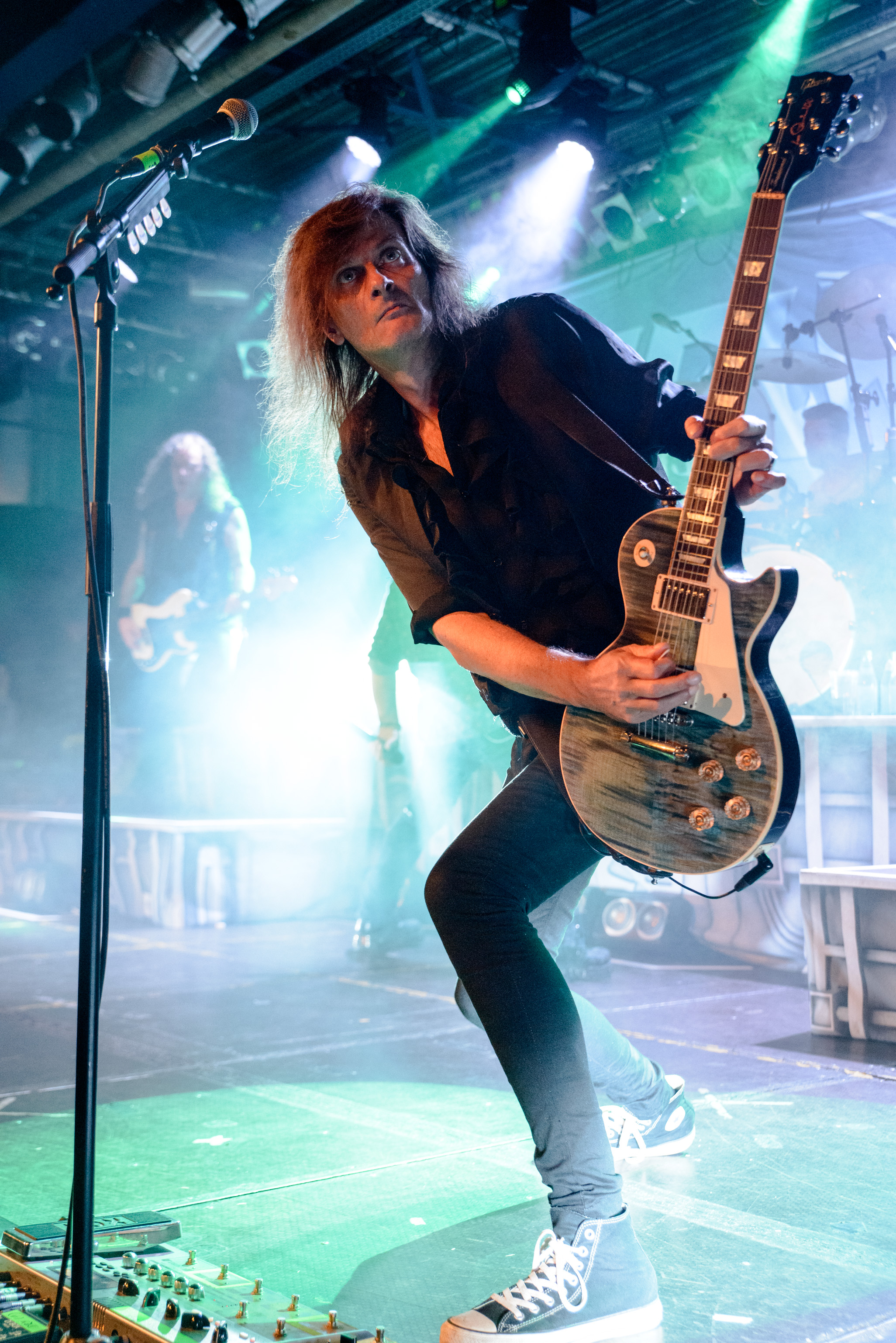 Helloween Live @ Backstage Werk, Munich